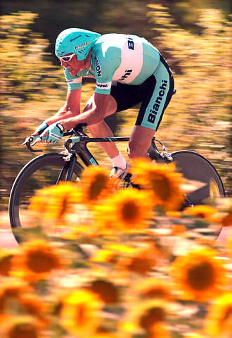 Jan Ullrich of Team Bianchi during a time trial (Gaillac to Cap-Decouverte Tour de France 2003 stage 12)